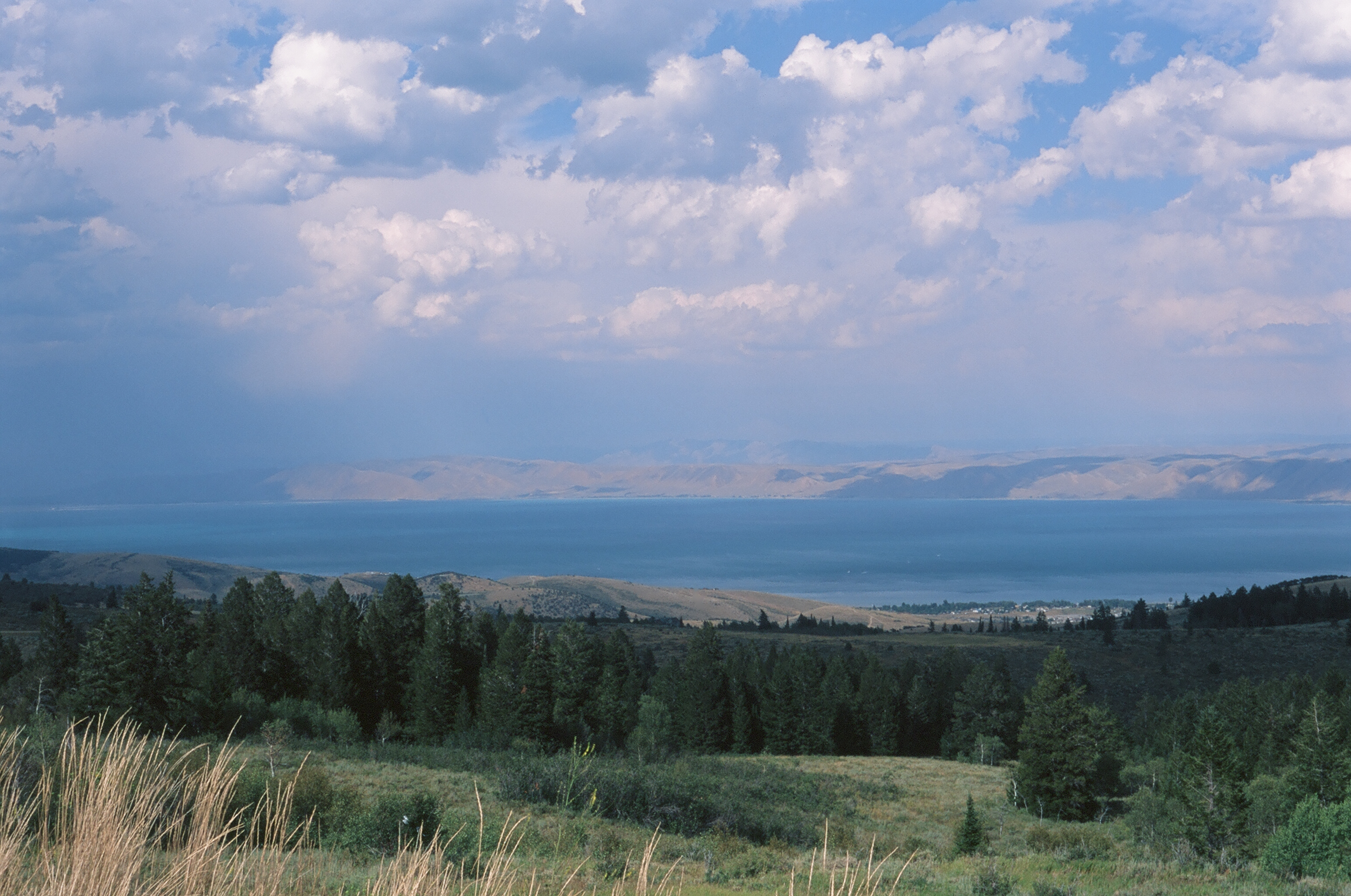 Bear Lake on the Utah side from the lookout on US-Highway 89 Agfa 100 slide film